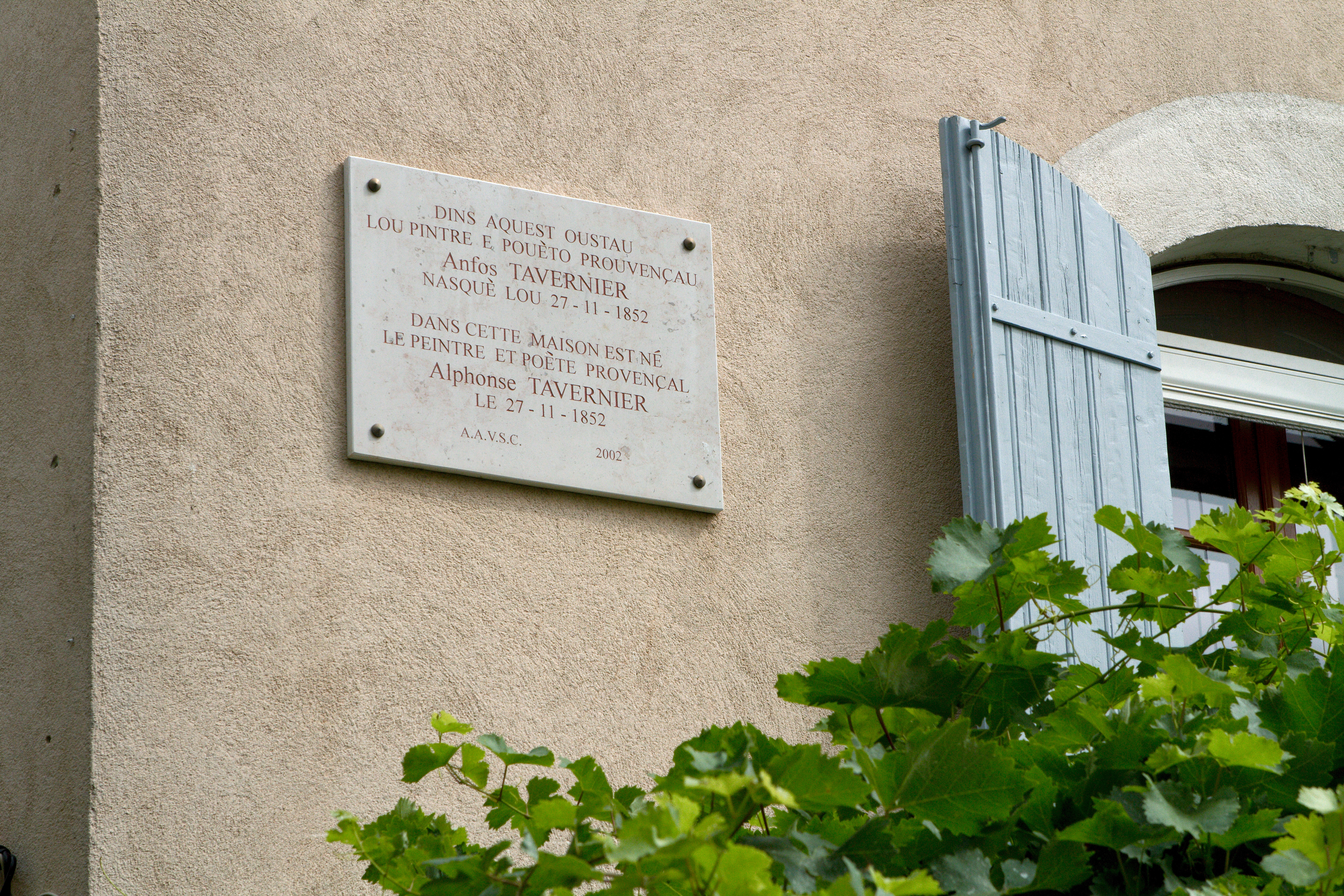 In this house was born the Provençal poet and painter Alphonse Tavernier. Saint-Cannat, Bouches-du-Rhône (France).